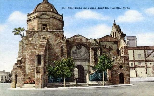 Iglesia de San Francisco de Paula.2, Havana